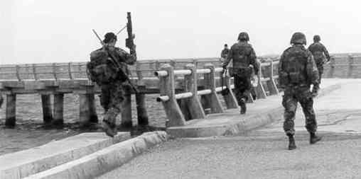 Karabela, East Timor (Sep. 26, 1999) - U.S. Military Traffic Management Command (MTMC) and Military Sealift Command (MSC) combined four man team conduct a survey of the port of Karabela in East Timor as part of the International Force for East Timor (INTERFET) with an escort provided by the New Zealand Army Special Air Service (NZSAS). The MTMC-MSC port survey team had earlier arrived at Baucau airfield in East Timor from Darwin, Australia and was then transported to the port by helicopter with the escort.